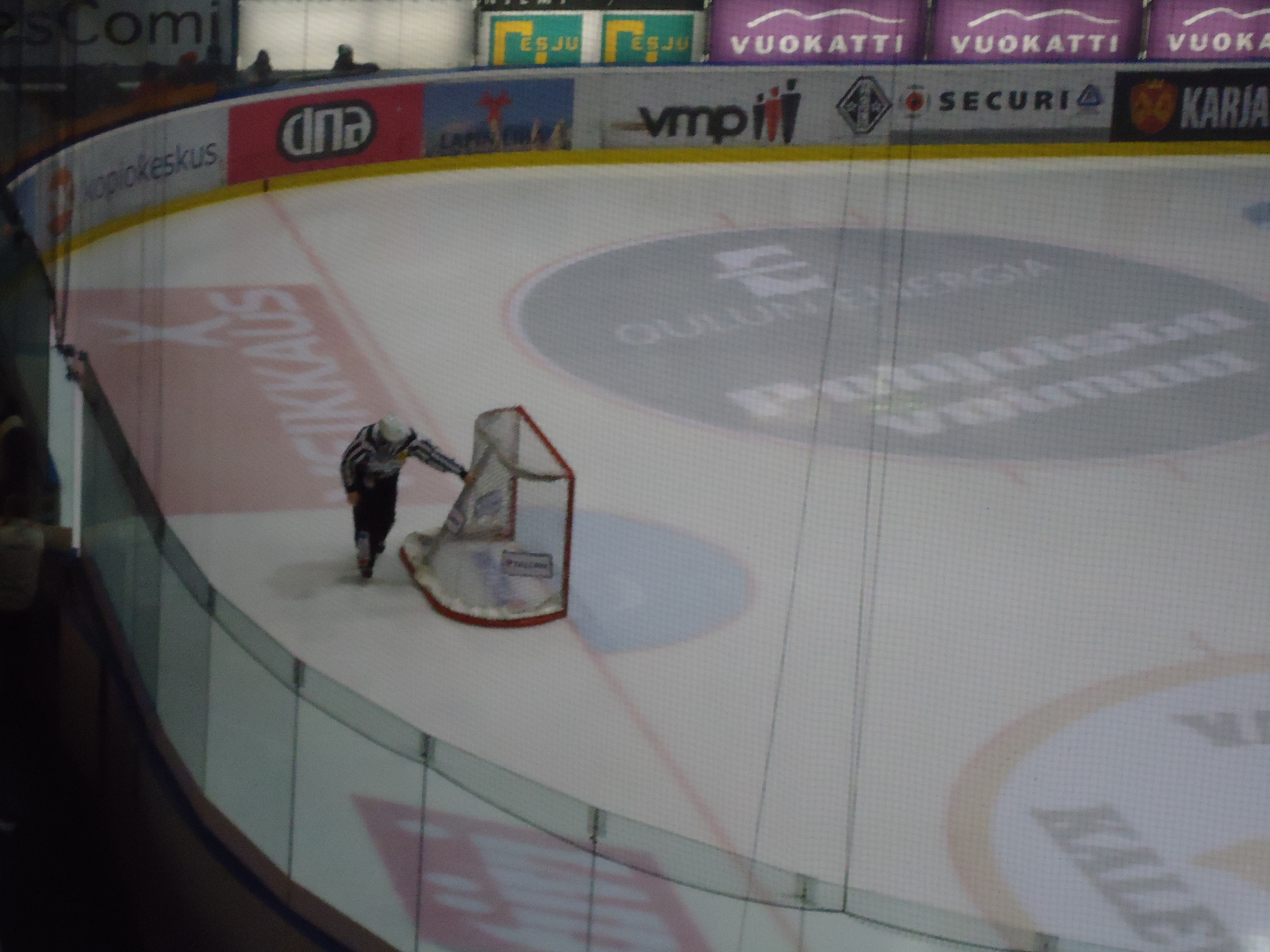 An ice hockey referee checking the state of the net in the Oulun Energia Areena in Oulu, Finland